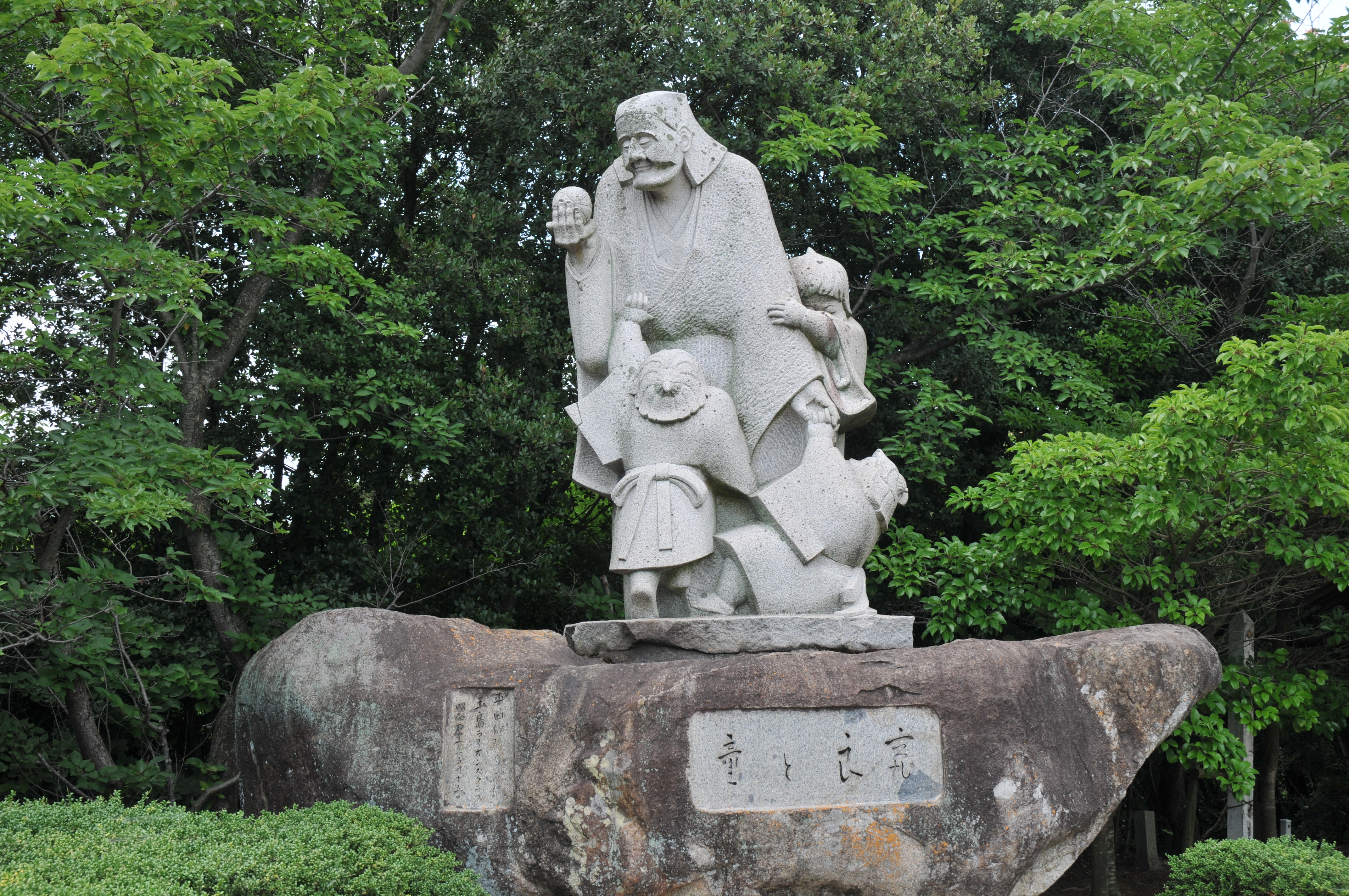 statue of "Warabe to Ryokan"(children and Ryokan)